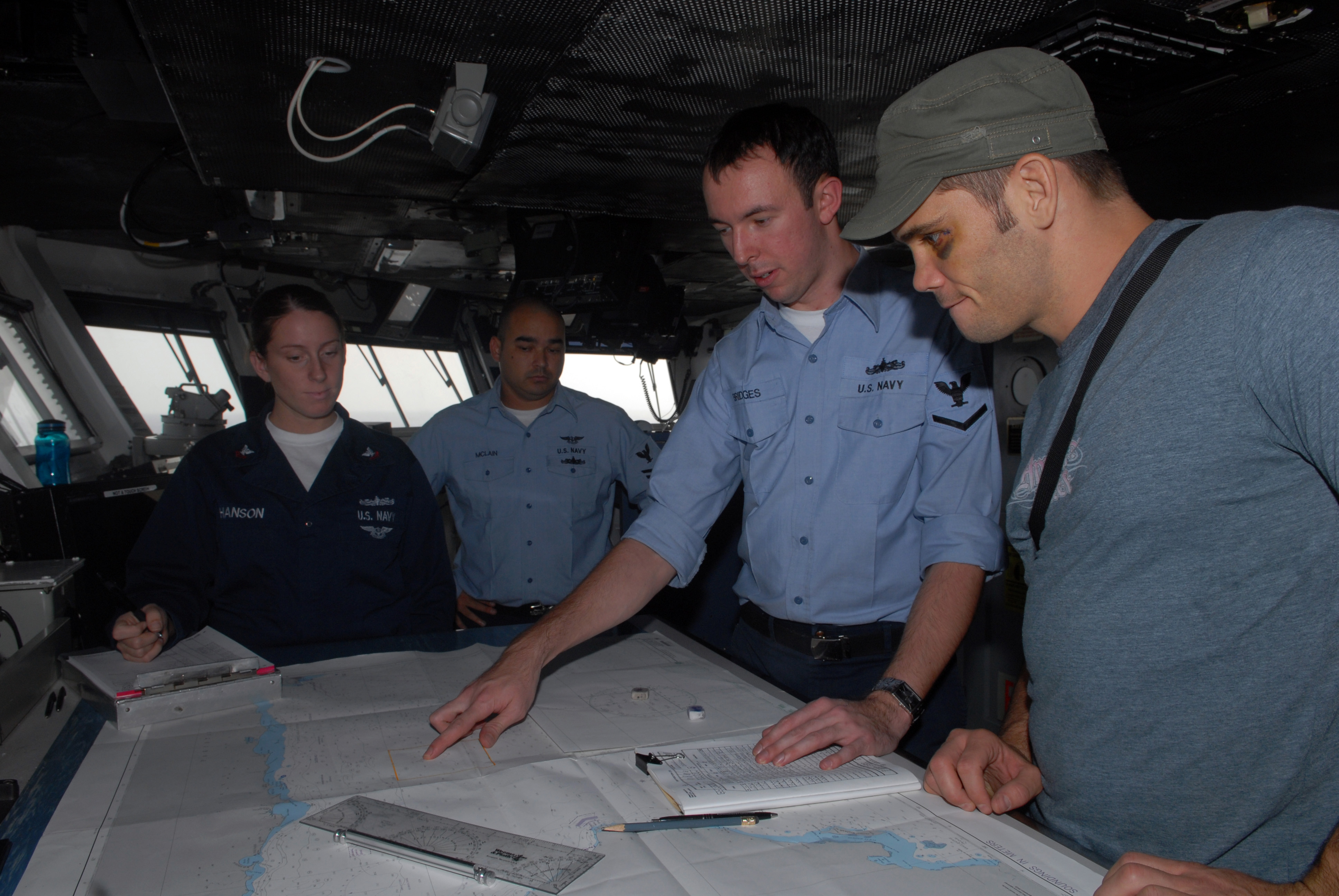 NORTH ARABIAN SEA (Sept. 11, 2008) Quartermaster 3rd Class Christopher Bridges describes his job to Ultimate Fighting Championship (UFC) fighter Rich Franklin on the bridge of the Nimitz-class aircraft carrier USS Ronald Reagan (CVN 76). Franklin and fellow UFC fighter Tim Sylvia were aboard Ronald Reagan in order to meet Sailors, sign autographs and boost the morale of the crew. Ronald Reagan is deployed to the U.S. 5th Fleet area of responsibility and is focused on reassuring regional partners of the United States' commitment to security, which promotes stability and global prosperity. (U.S. Navy photo by Mass Communication Specialist 3rd Class Joshua Scott/Released)